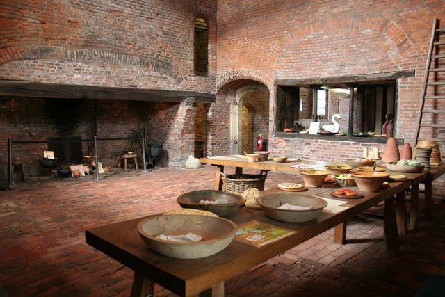 Medieval kitchen Gainsborough Old Hall has one of the best medieval kitchens in the country, seen here are one of the two vast fireplaces and the servery